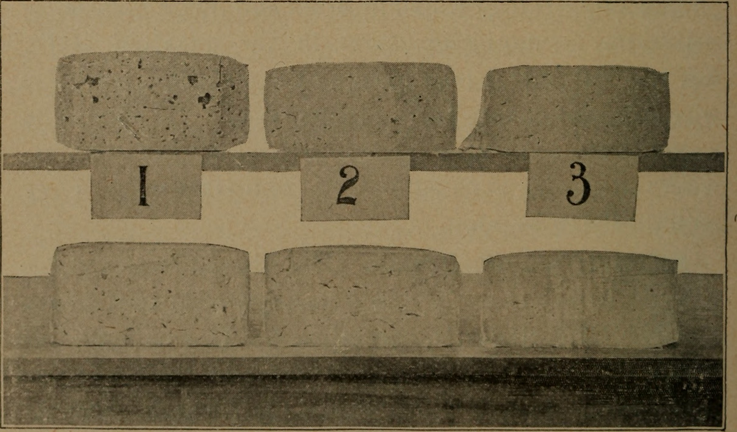 Title: Cheddar cheese making Year: 1895 (1890s) Authors: Decker, John Wright, d. 1907 Subjects: Cheese Publisher: Madison, Wis. , The author Text Appearing Before Image: 54 CHEDDAR CHEESE MAKING. flavored cheese, salt it pretty heavy, say three pounds of salt per one hundred of curd. We must expect however, that such a curd will cure slowly. We can- not make the best kind of cheese in a day, a week, nor a month. If one wants a fast curing cheese, he uses more rennet and less salt, but the product will not be as good a cheese. It will not be as close, nor as fine flavored, for the gases will not have had time to escape from the cheese. If one is making a fine, slow curing cheese, he need not expect to get as much cheese per hundred weight of milk, as if he were mak- ing fast curing cheese, for the salt expels the moist- ure and leaves less weight. Text Appearing After Image: Effect of salt in cheese: No. 1, no salt; No. 2, upper row, 1-1/2 pounds; lower row, 2 pounds per 100 pounds of curd; No. 3, 3 pounds per 100 pounds of curd. In a case which we had in the Wisconsin dairy school, a curd was divided into three equal parts. * The first lot received no salt; the second lot one and a half *A further discussion of this by the author will be found in the Wis. Experiment Station Eleventh Annual Report.